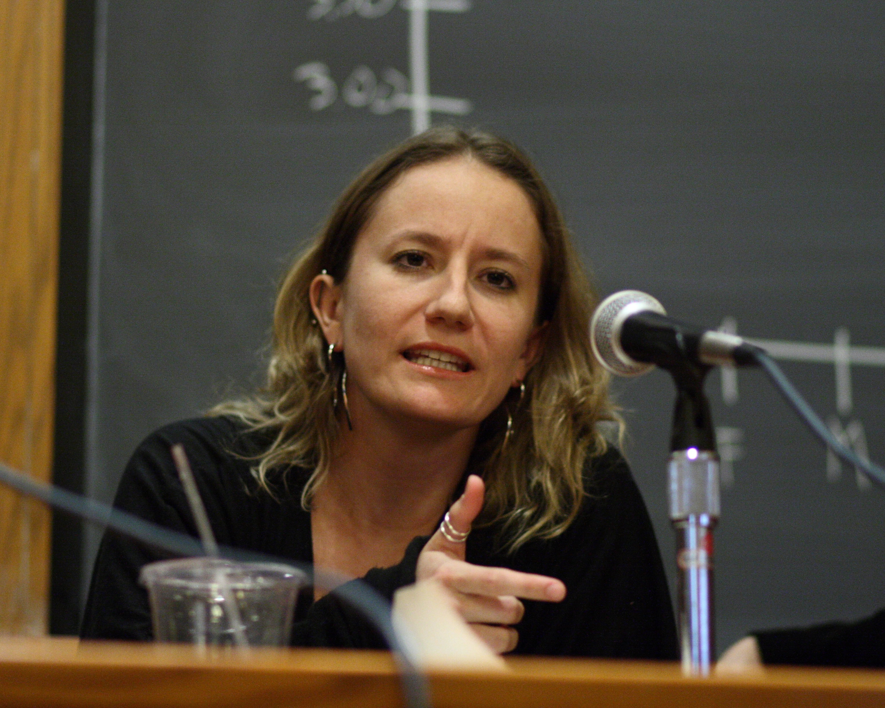 danah boyd at the Writers on Writing about Technology roundtable at Yale University marking the publication of The Best Technology Writing 2009 (Yale University Press), to which boyd contributed.